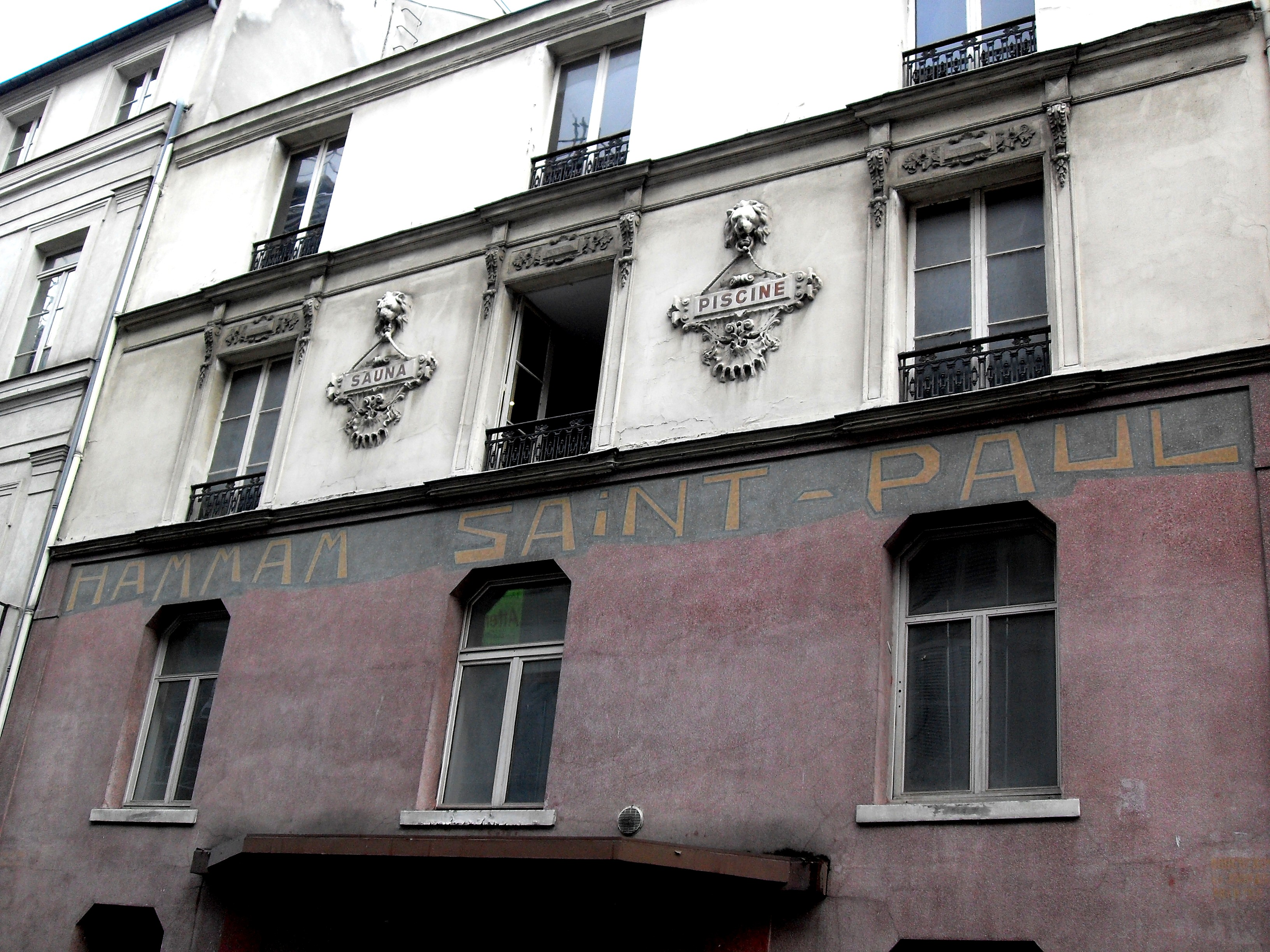 Rue des Rosiers - former Hammam Saint-Paul in the Pletzl, the jewish quarter of Paris, France.